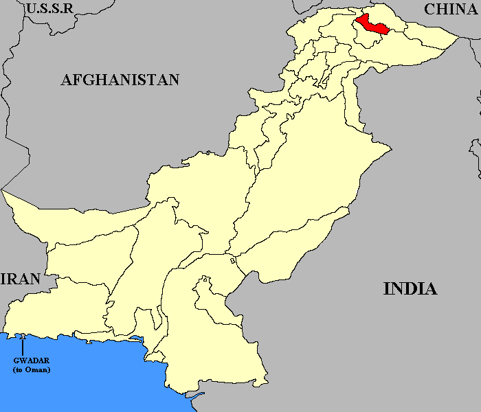 This map shows the relative position of the former State of Nagar in Pakistan up to its dissolution in 1974.